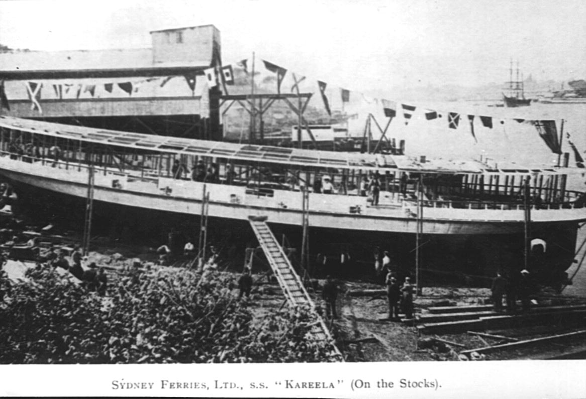 Sydney ferry KAREELA on stocks at builders Morrison and Sinclair of Balmain probably on launching day 31 May 1905. Graeme Andrews, Ferry KAREELA, launching day. (01/01/1905 - 31/12/1905), [A-00081867]. City of Sydney Archives, accessed 24 May 2020